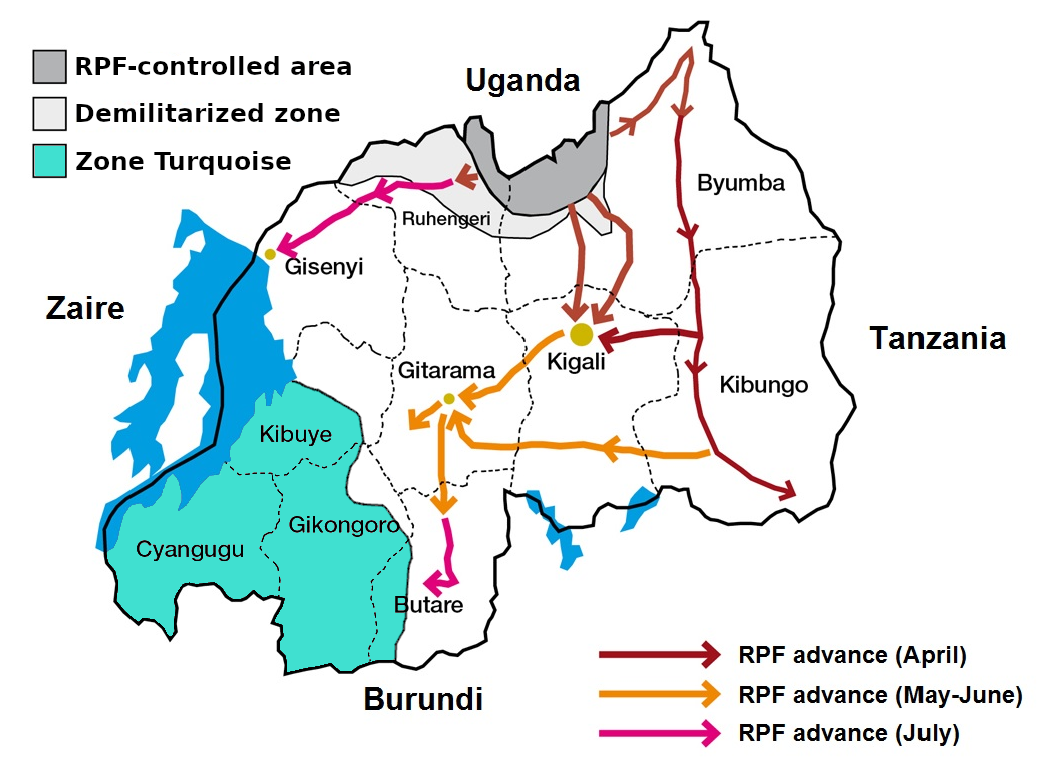 Map showing the advance of the RPF during the Rwandan Genocide of 1994. English language version of an existing German-language Commons file found here made by CosmicGirl based on info found in: Alan J. Kuperman: The limits of humanitarian intervention. Genocide in Rwanda, Brookings Institution Press, Washington, DC 2001, ISBN 0-8157-0086-5, Seite//page 43. Alison Des Forges: Leave None to Tell the Story, Human Rights Watch, 1999, map between pages 692 and 693 showing the extent of Zone Turquoise.